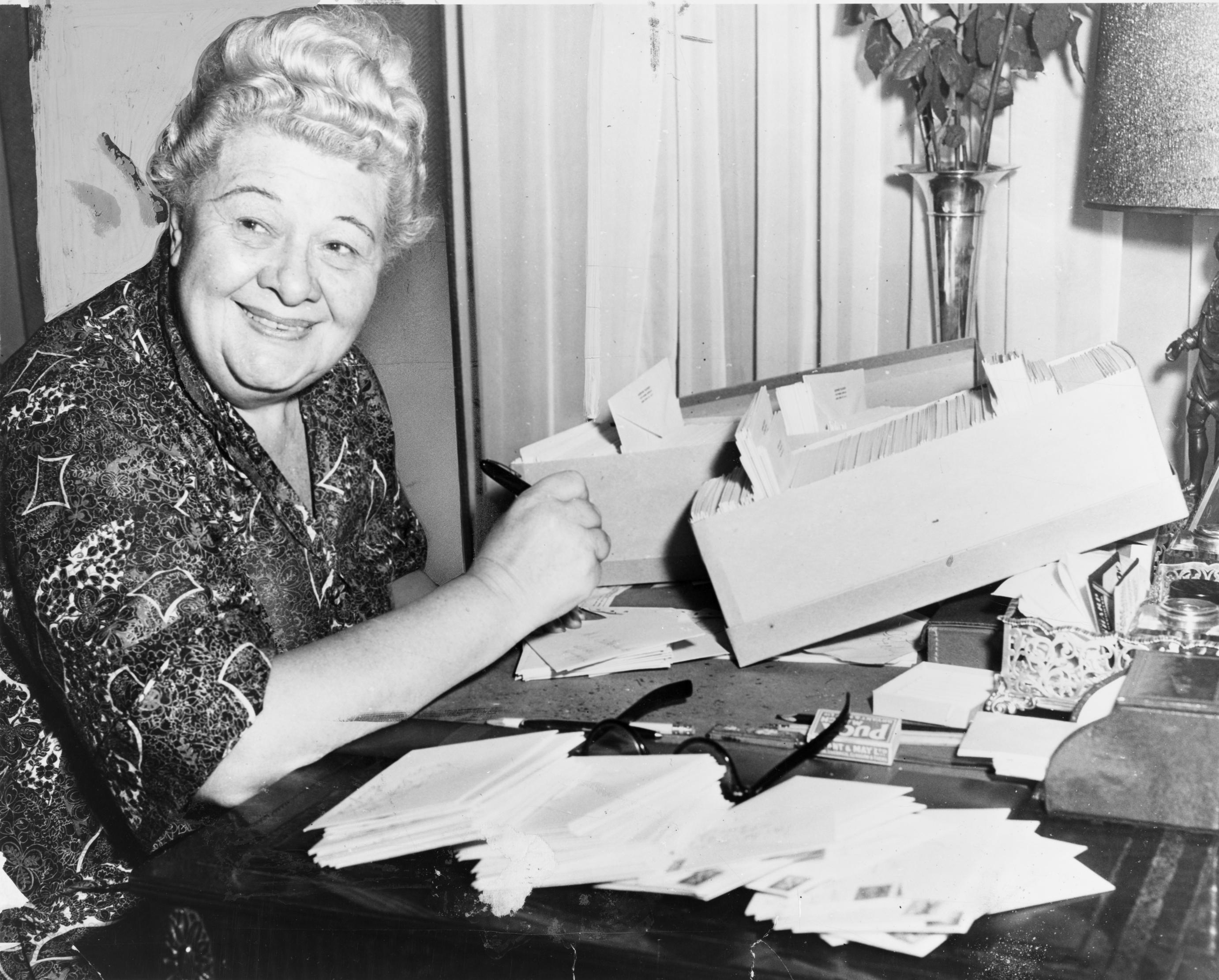 Sophie Tucker, singer and comedian, "the personal touch"